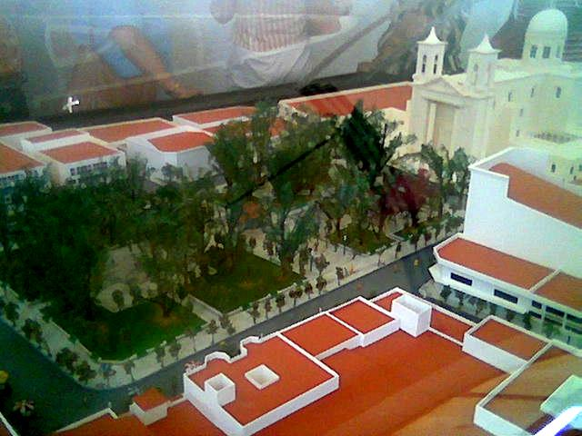 Made by JesusMX Junio 2006